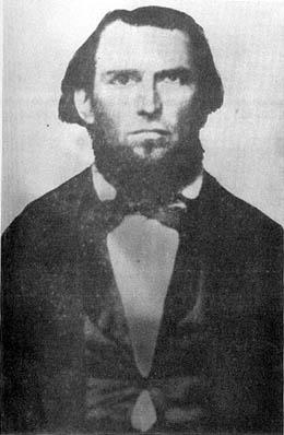 C.1850 photograph of Isaac Neff Ebey (1818-1857). 19th century pioneer in Spokane, and on Whidbey Island in present day Island County, both in Washington state. His legacy is part of the NPS Ebey's Landing National Historical Reserve.